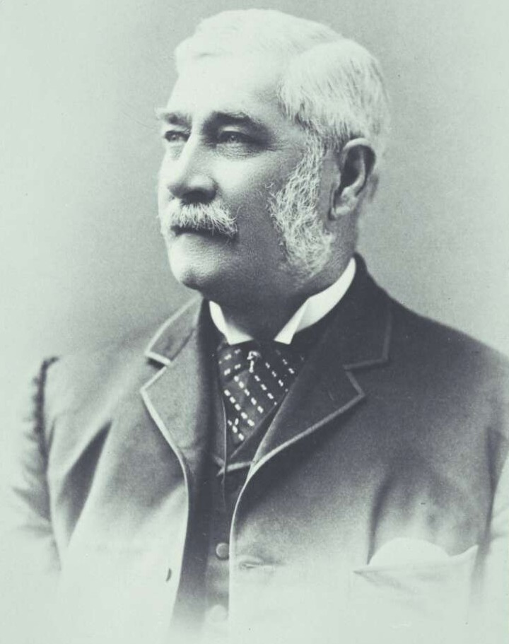 James Lee Steere From the 1898 Australasian Federal Convention Album.